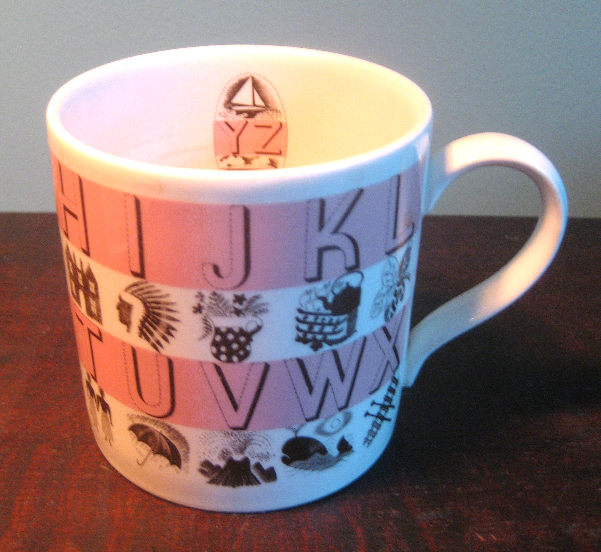 Alphabet cup designed by Eric Ravilious in 1937. Transfer on Wedgwood cream ware. Height 8.3 centimeters (3.26 inches).